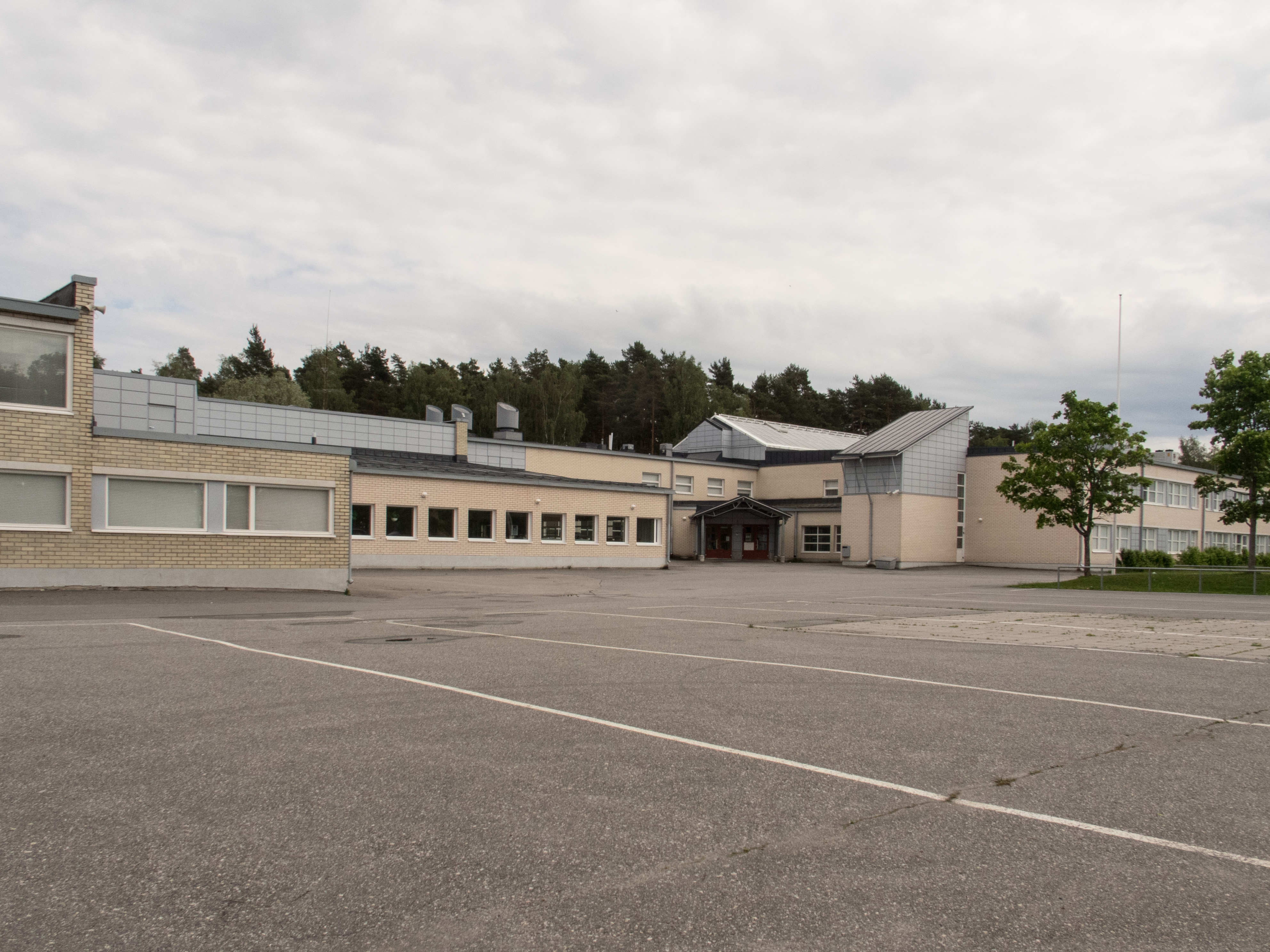 Vaisaari school, a large secondary school in Raisio, Finland.